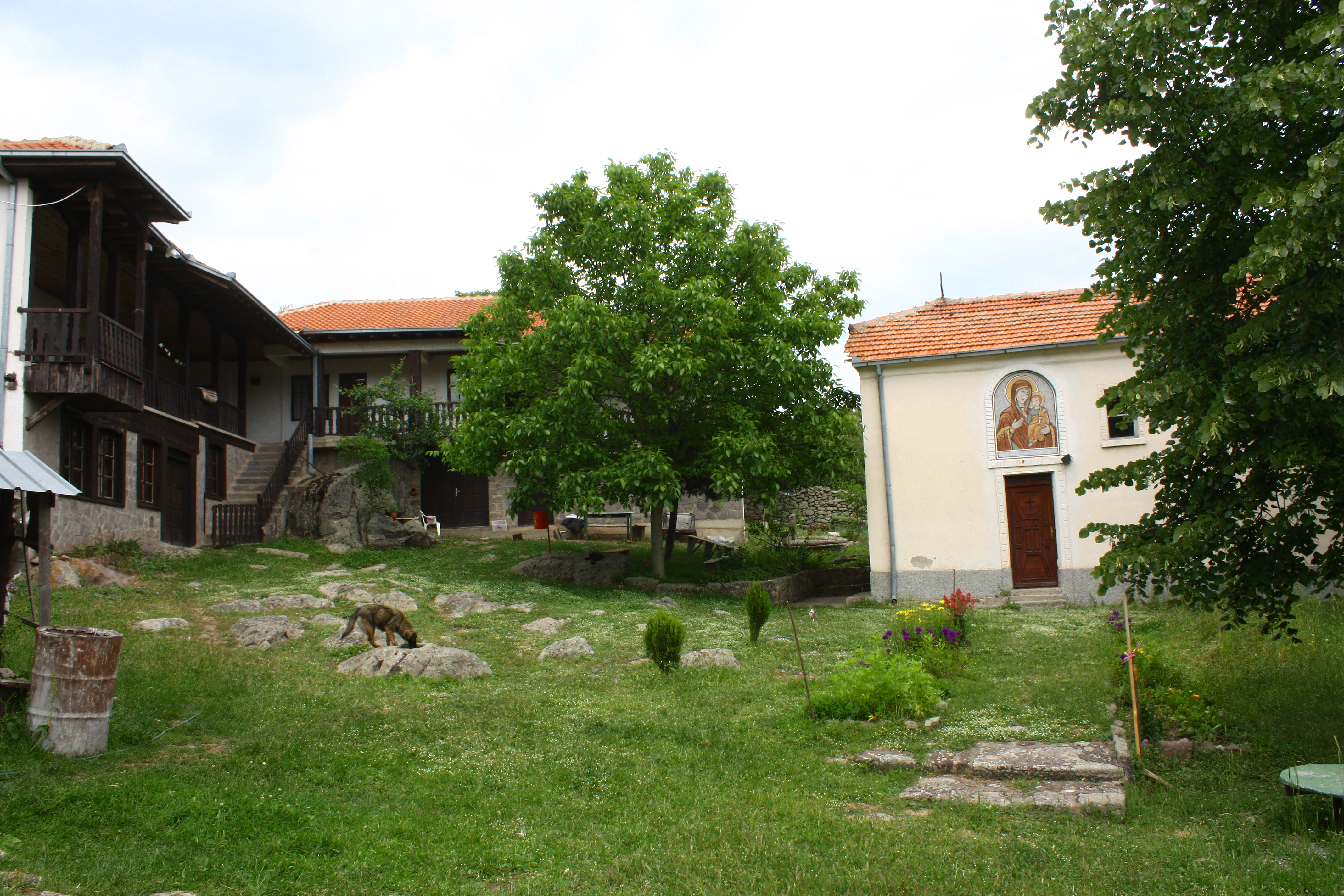 Ǵurište Monastery, Macedonia This image is uploaded as part of the picture contest Wiki Loves Cultural Heritage in Macedonia 2013. English | македонски | +/−